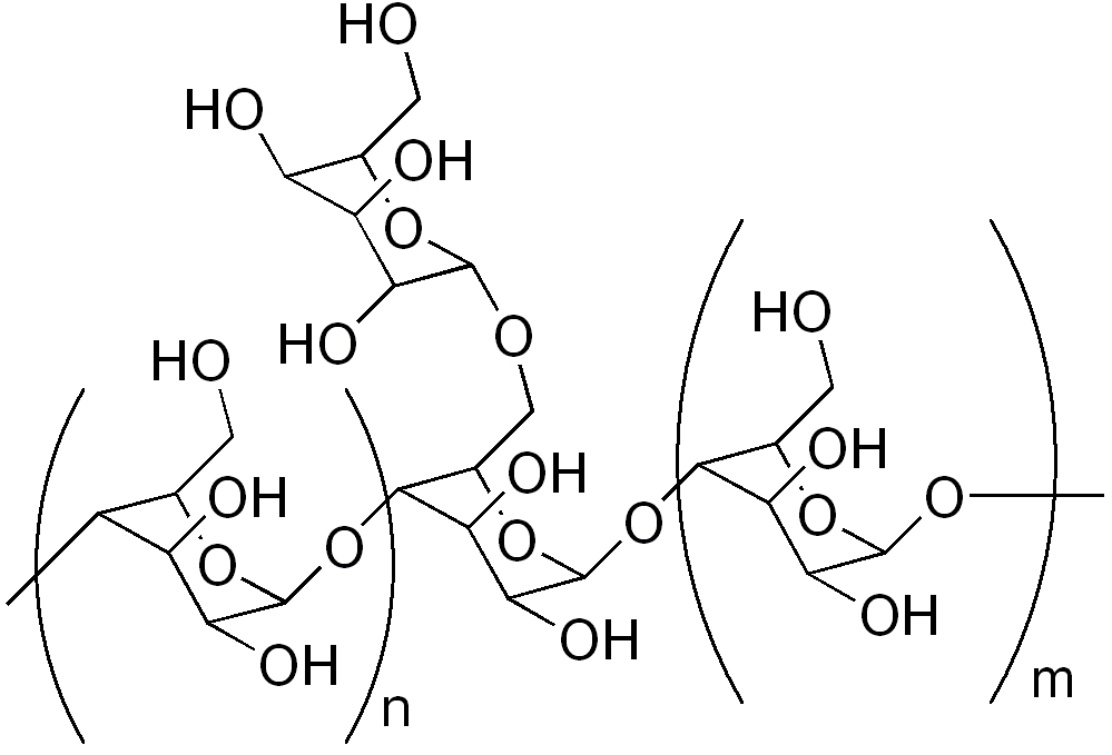 Chemical structure of galactomannan